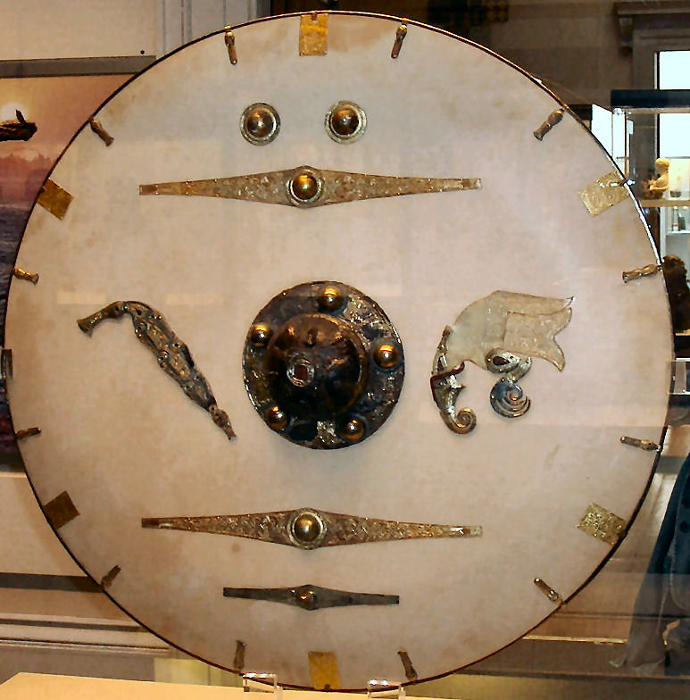 Shield from the Sutton Hoo ship-burial 1, England. Reconstruction.